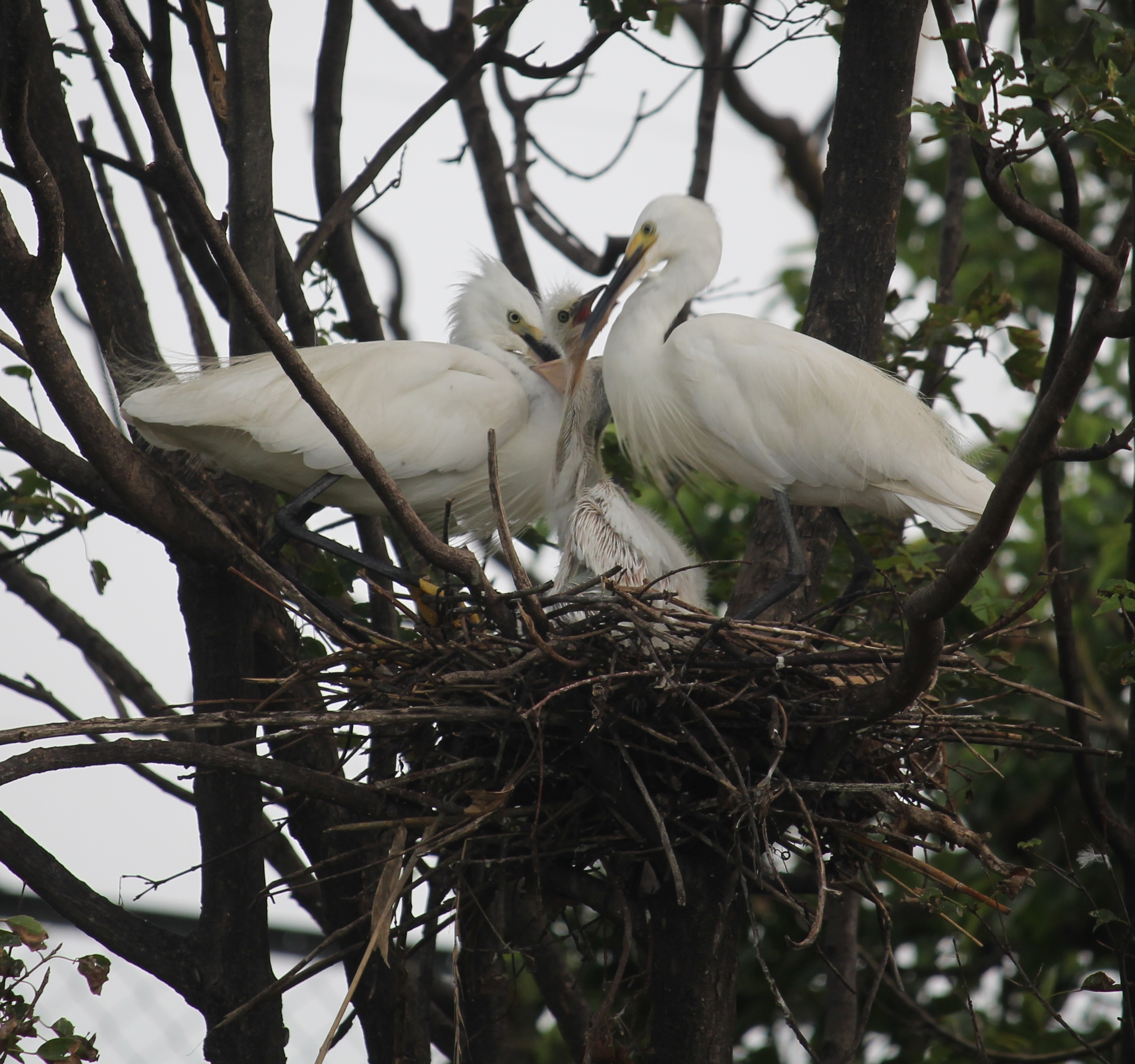 Egretta garzettat feeding foods for juveniles in nest in Aichi Prefecture, Japan.